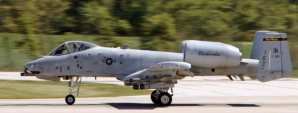 163d Fighter Squadron - Fairchild Republic A-10A Thunderbolt II 82-0661 (c/n 709) to AMARC as AC0265 May 15, 2001. Returned to service Jul 19, 2001. Back to AMARC as AC0472 Jan 17, 2006. Returned to service.